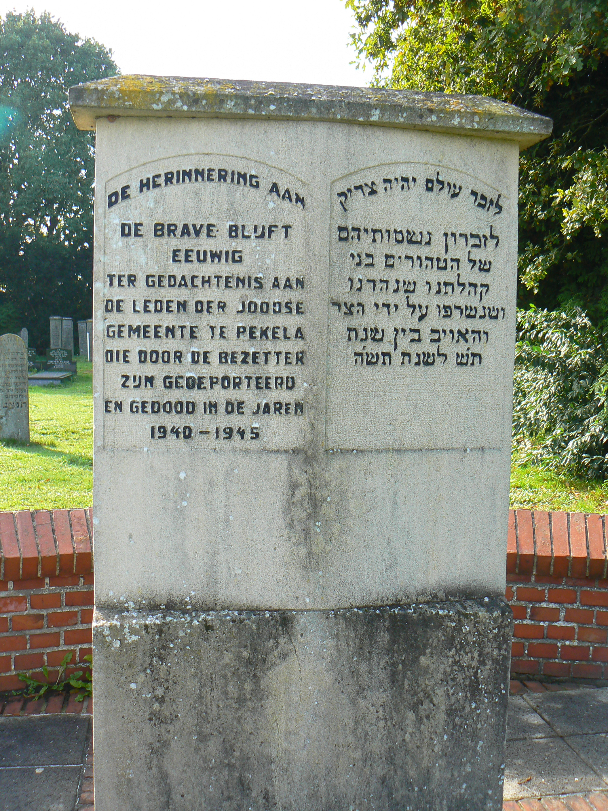 Memorial Joods monument Oude Pekela (1950), Draijerswijk in Oude Pekela/The Netherlands